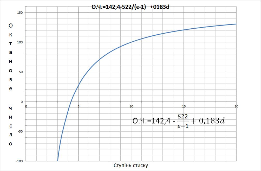 Dependence of the required octane number on the compression ratio